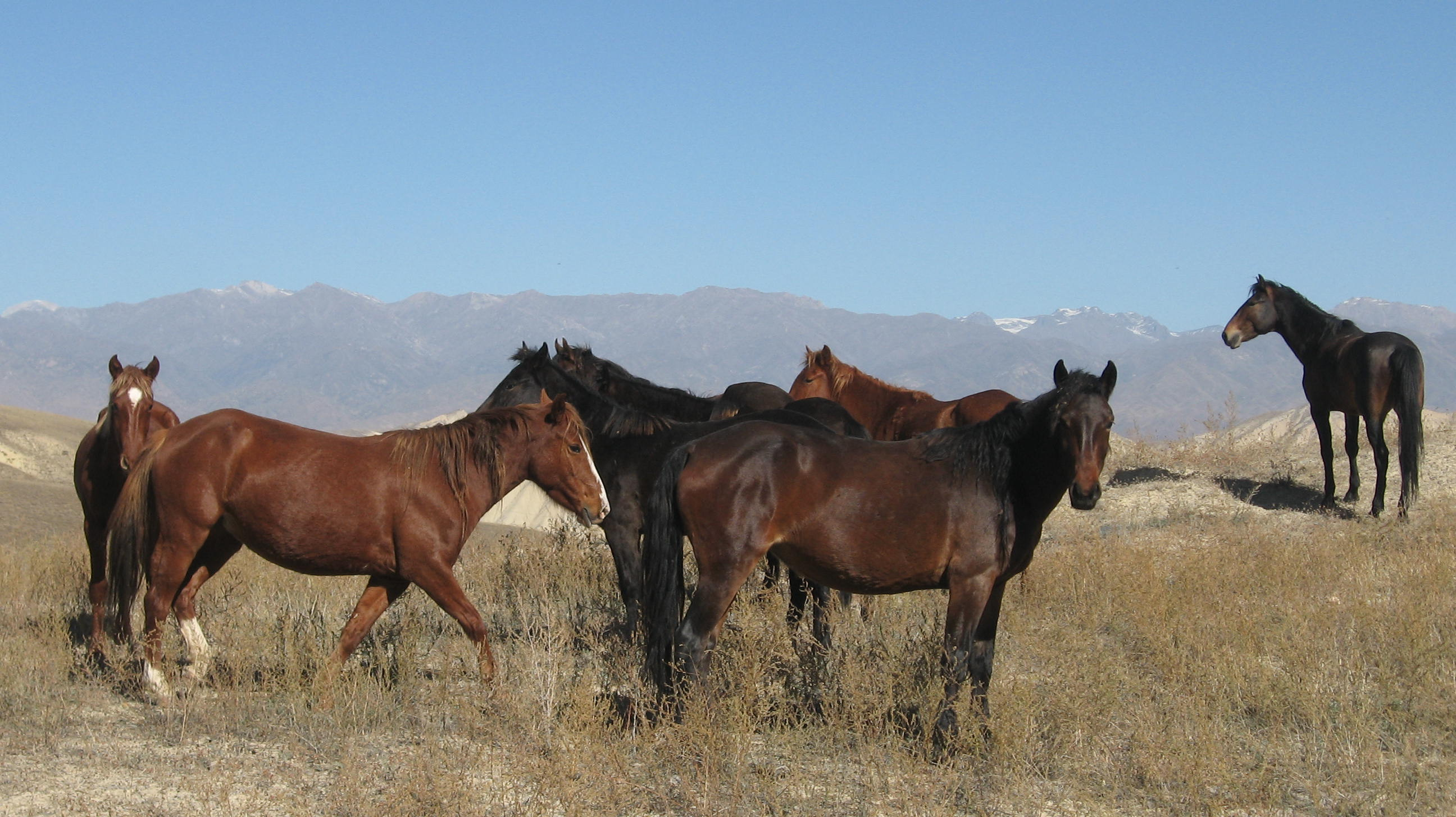 Yes, these horses are for eating, and their meat is pretty darn yummy.